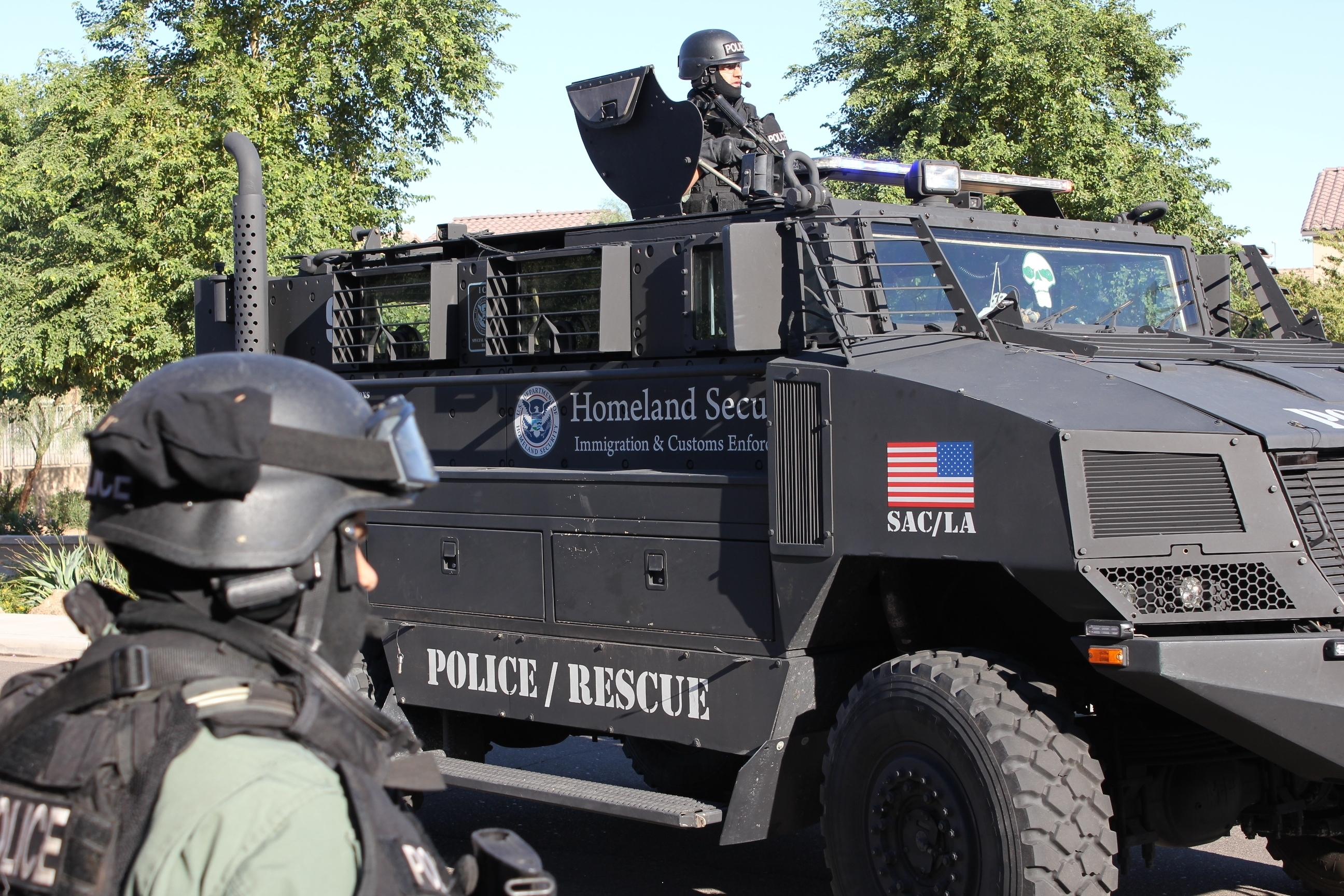 Special Response Team (SRT) within Homeland Security Investigations (HSI) of the U.S. Immigration and Customs Enforcement (ICE) assault vehicle prepares for Operation Pipeline Express. Federal, state and local authorities announced the results of "Operation Pipeline Express," a 17-month multi-agency investigation responsible for dismantling a massive narcotics trafficking organization in the Arizona's western desert.